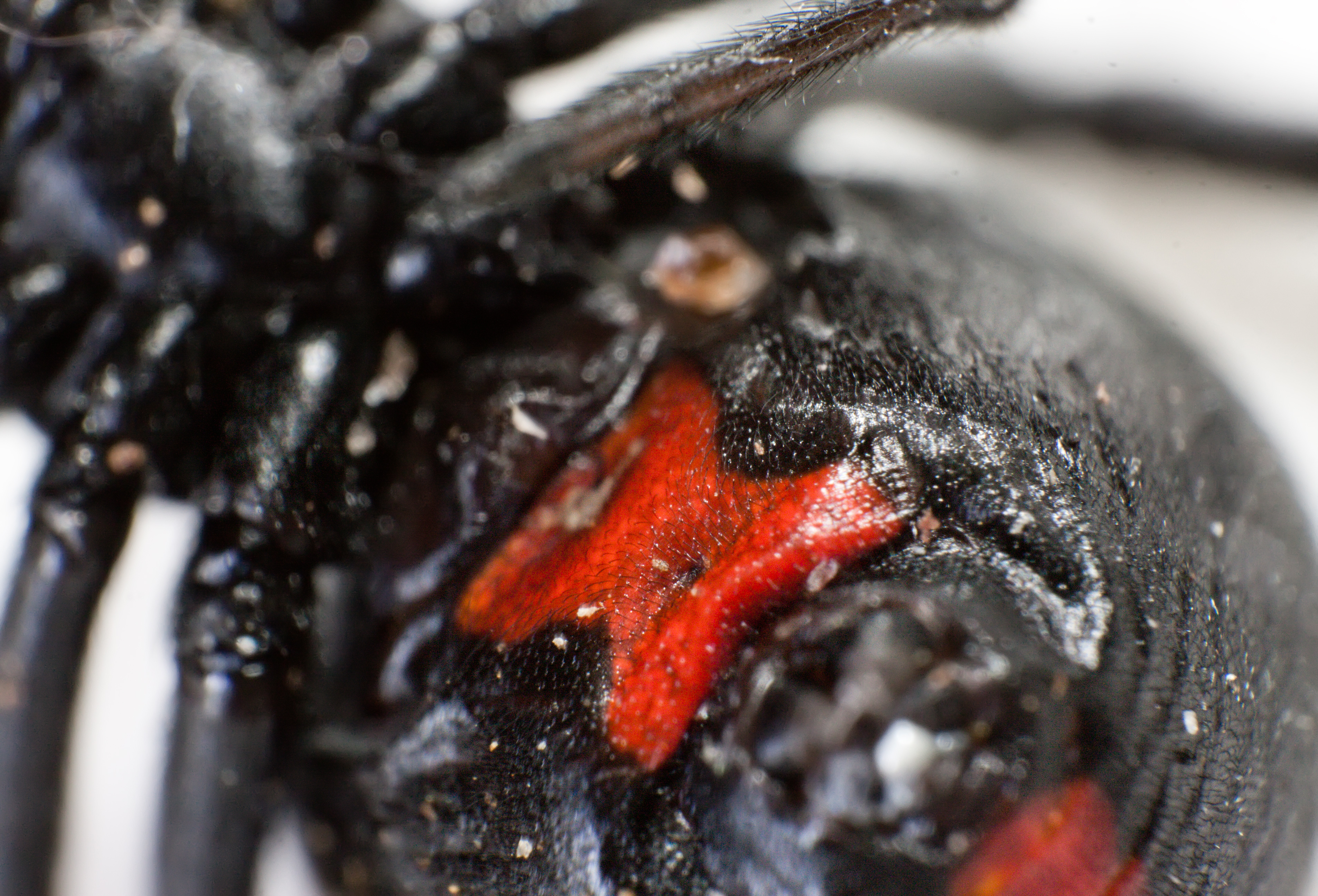 A Georgia black widow at high magnification from the underside.